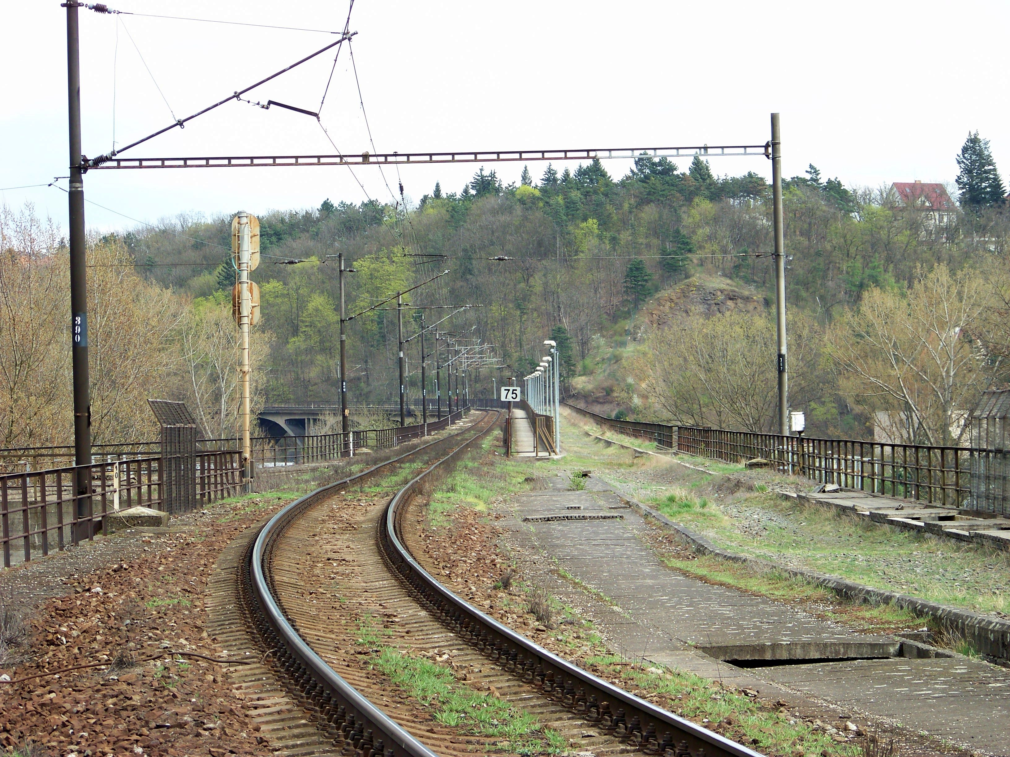 Prague-Malá Chuchle, the Czech Republic. Braník Bridge. - Google Maps - Google Earth